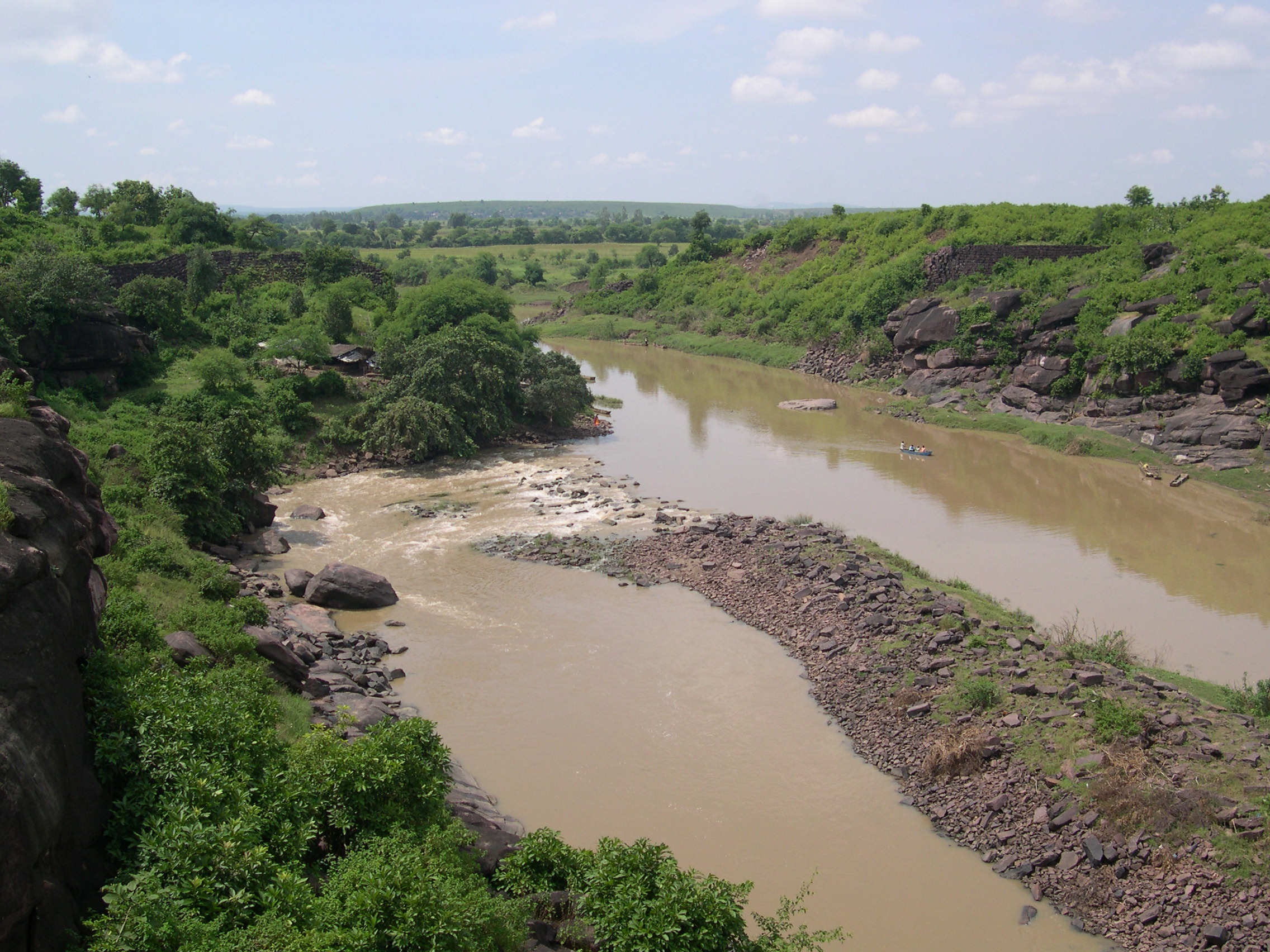 Bhojpur, Madhya Pradesh, India. Betwā river near the temple, showing fallen dam